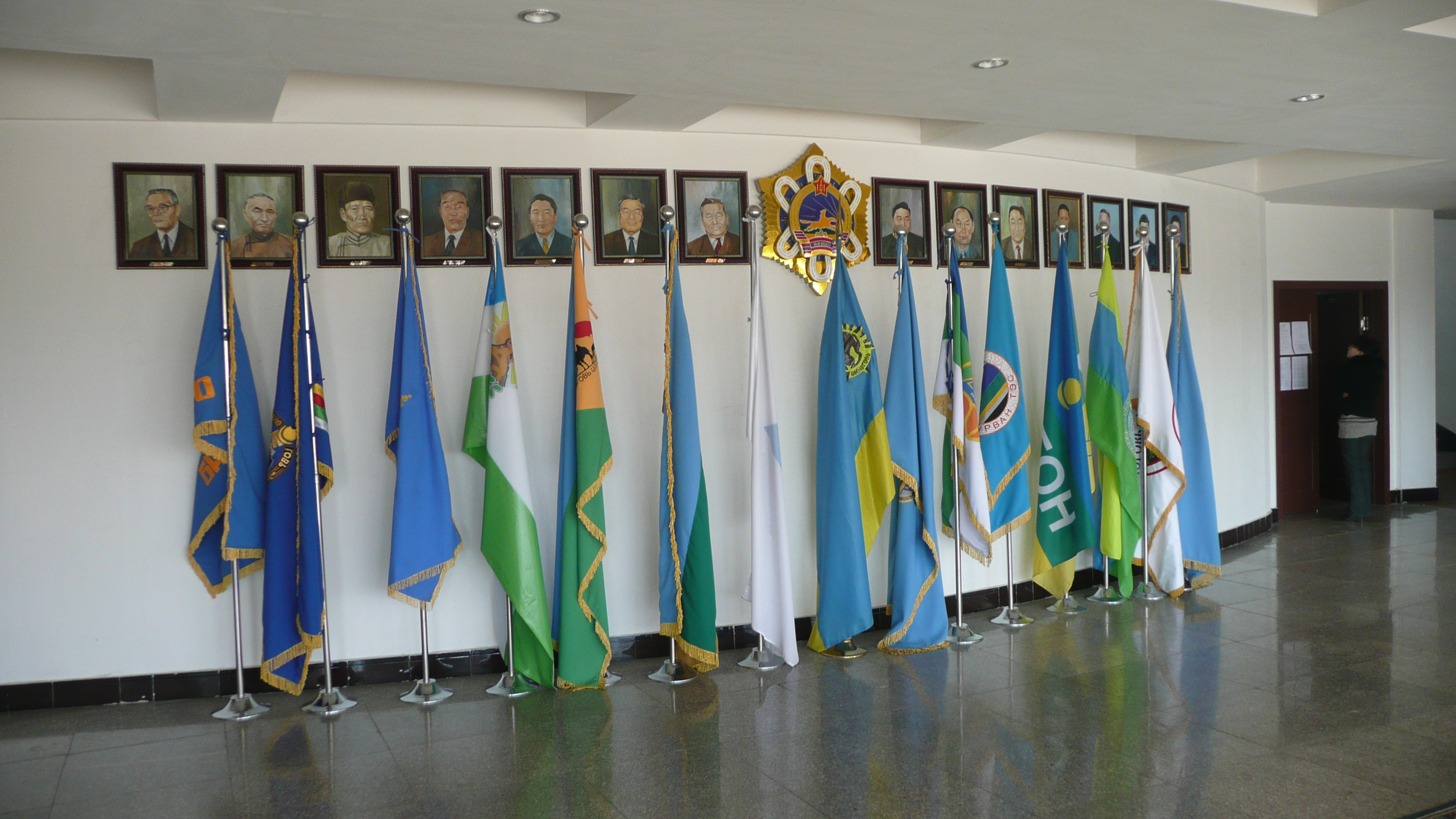 Inside the building of the Aimag administration in Dalanzadgad